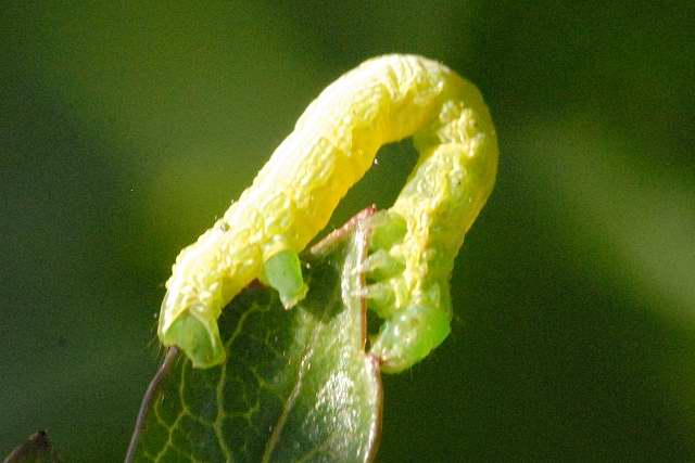 Dysstroma truncata from Commanster, Belgian High Ardennes .